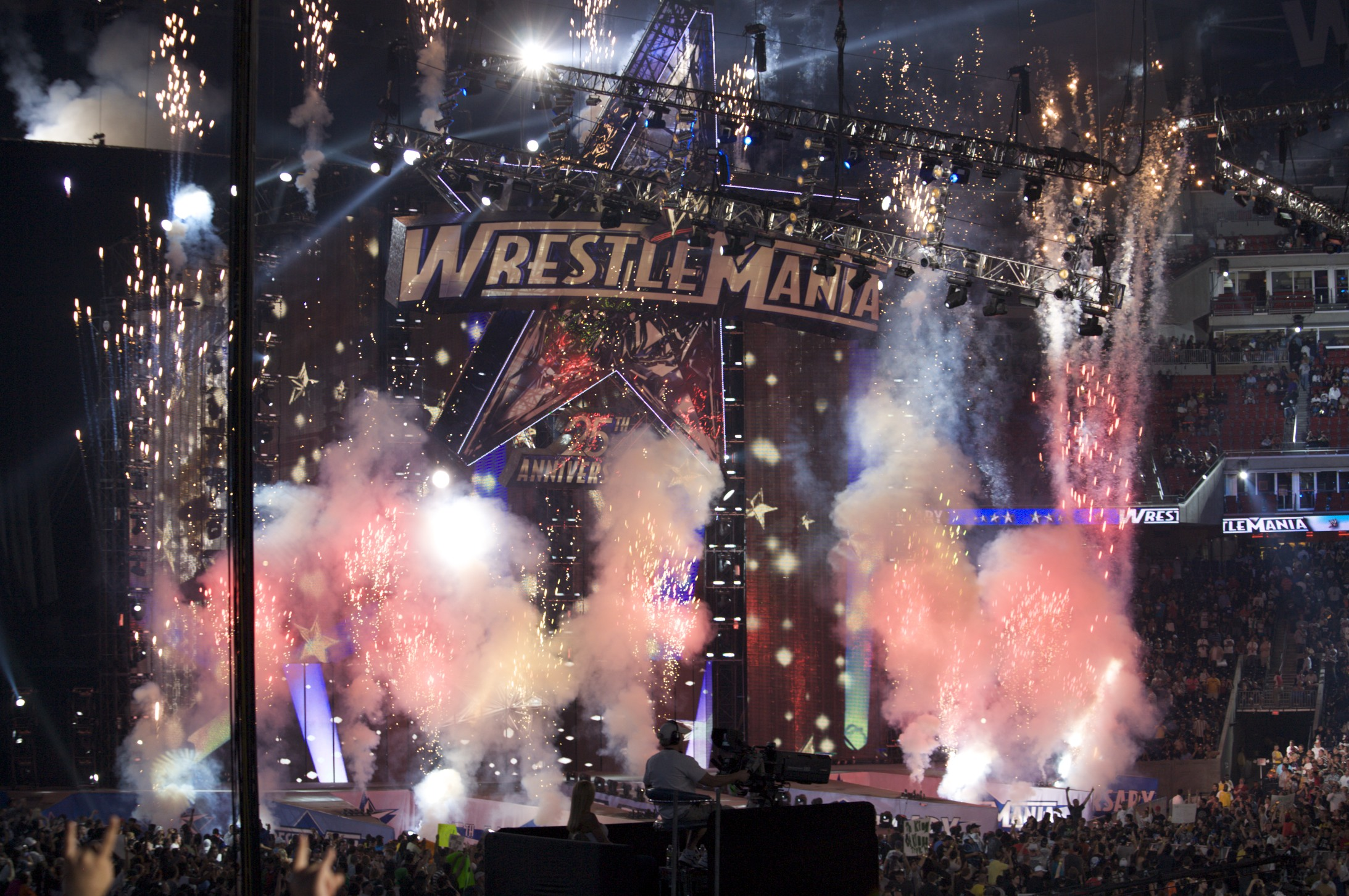 Wrestlemania 25 at Reliant Parkin Houston Texas 2009